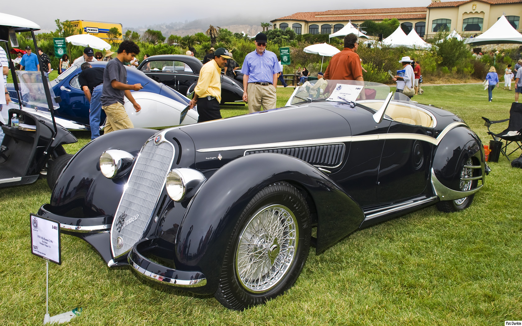 1938 Alfa Romeo 8C 2900B Touring Spider